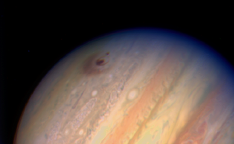 Impact site of fragment G (~1km in diameter) of Comet Shoemaker-Levy 9 on Jupiter